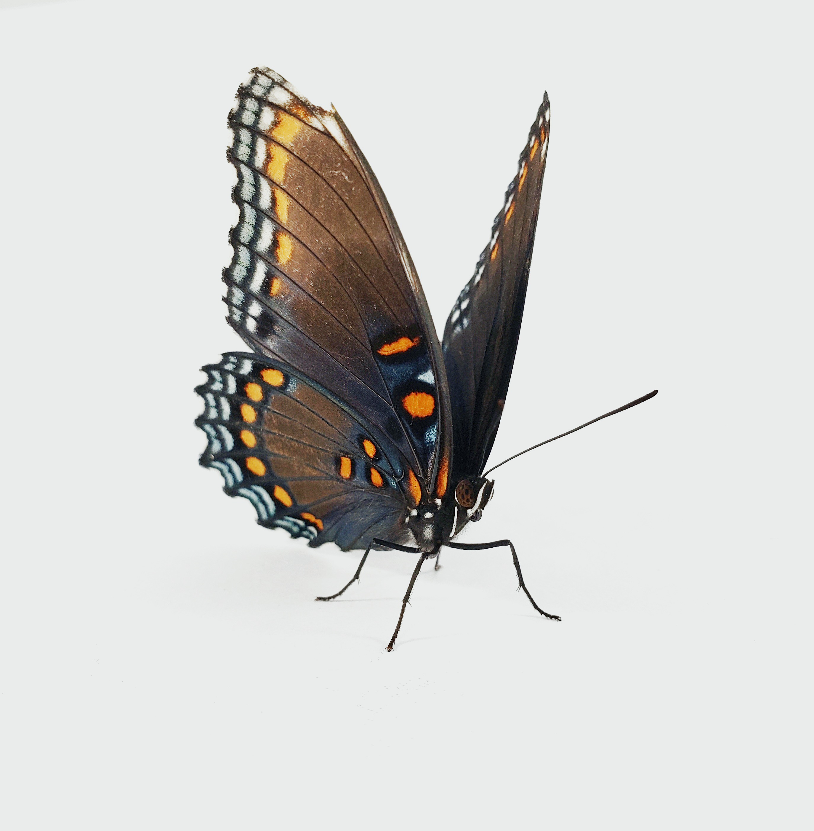 Red Spotted Purple (Limenitis arthemis)